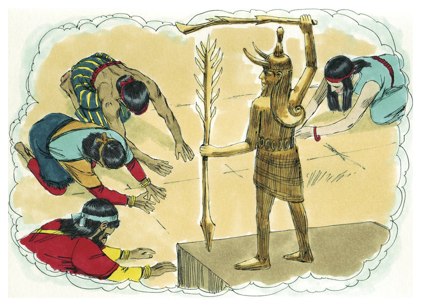 Biblical illustration of Book of Deuteronomy Chapter 5